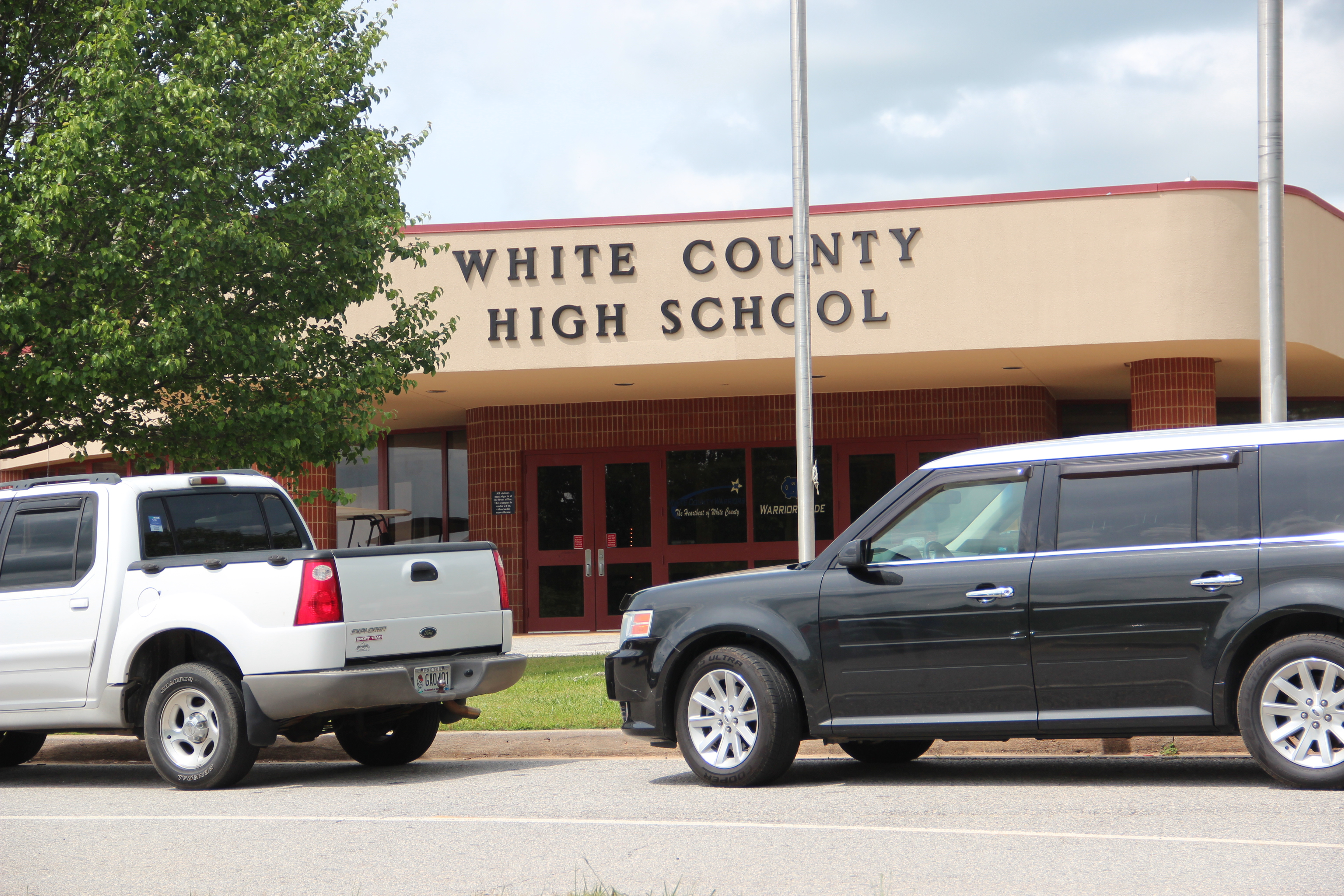 White County High School front entrance